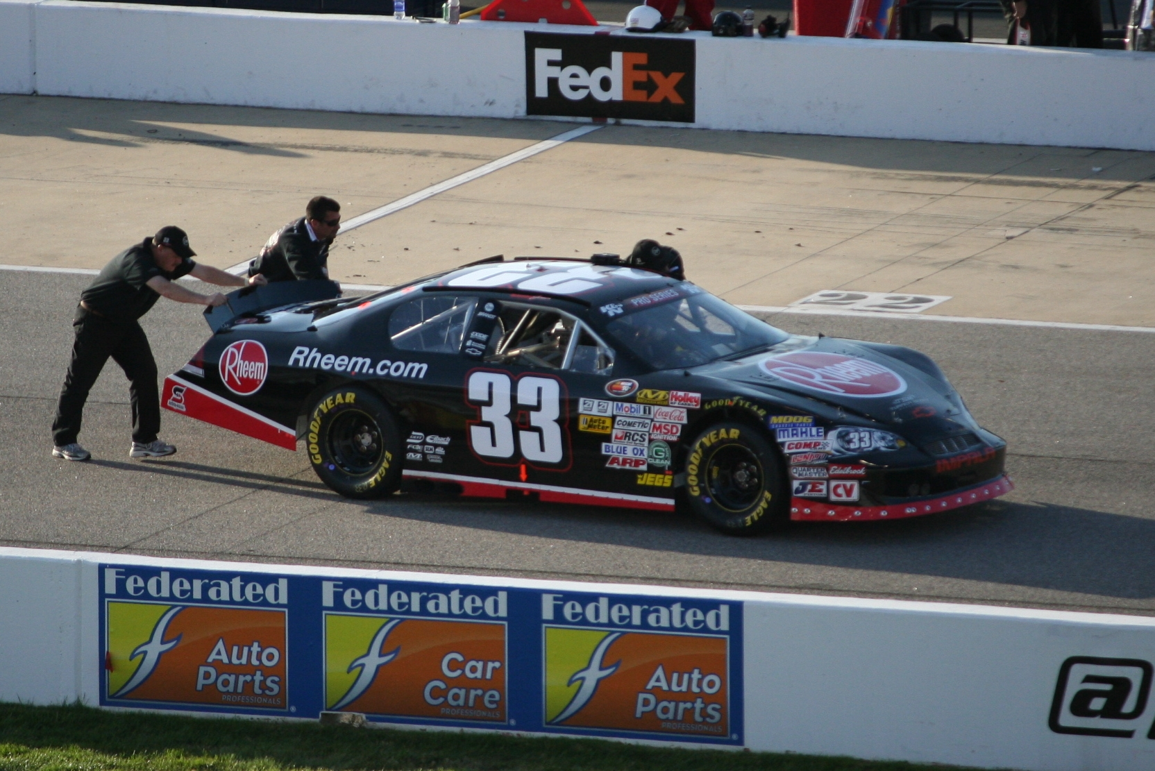 Brandon Jones' No. 33 Chevrolet is pushed on pit road at Richmond International Raceway before the NASCAR K&N Pro Series East Blue Ox 100, April 25 2013.